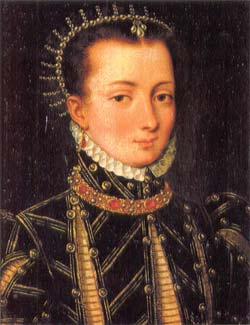 Elizabeth Boleyn, Countess of Wiltshire, mother of Anne Boleyn, Queen of England, 16th century (Claire (14 July 2010). Elizabeth Boleyn, Mother of Anne Boleyn. . Retrieved on 13 April 2012.)